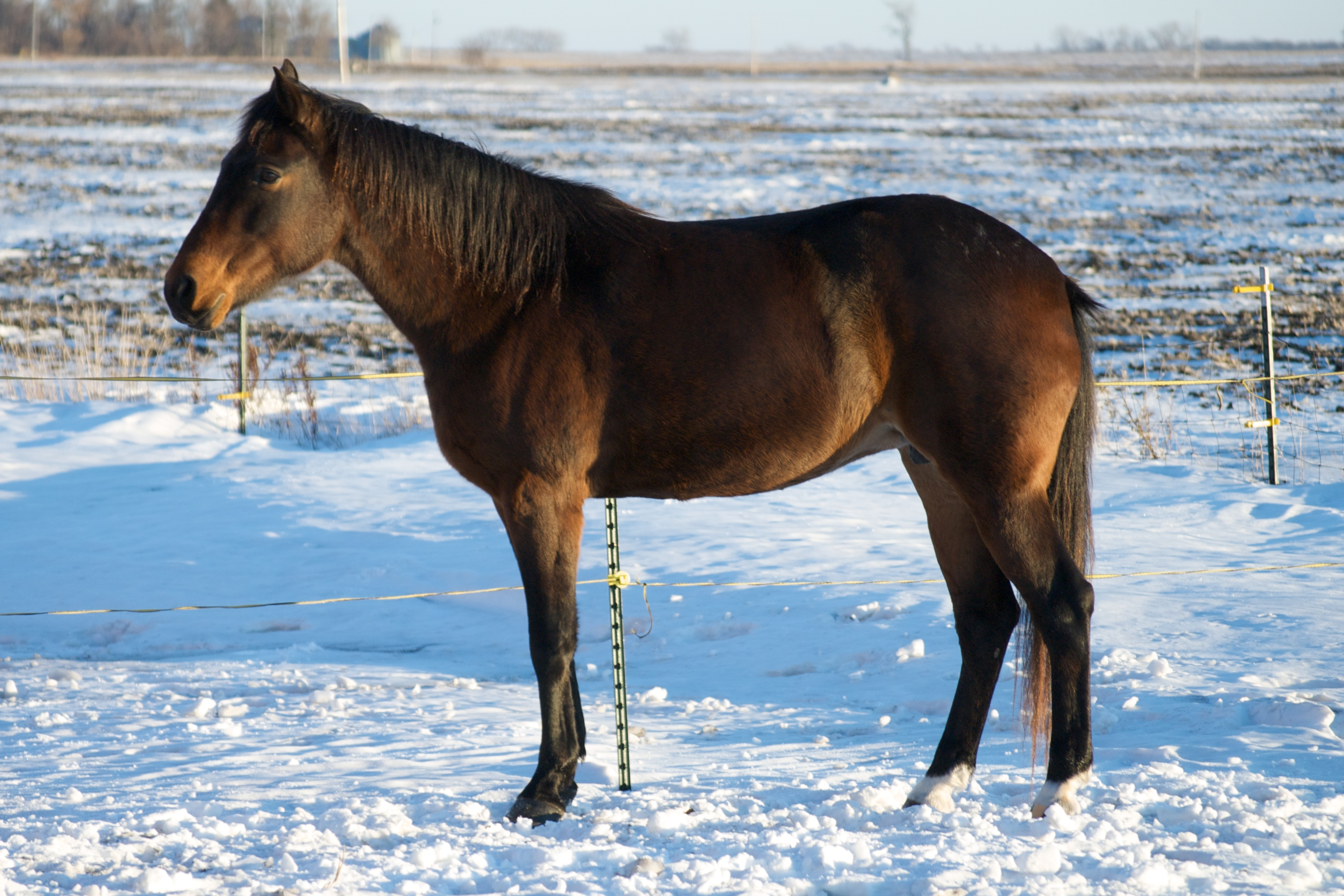 Sioux, our standardbred mare, showing off her winter coat. Doesn't she look completely different from the coat she has in the summer?